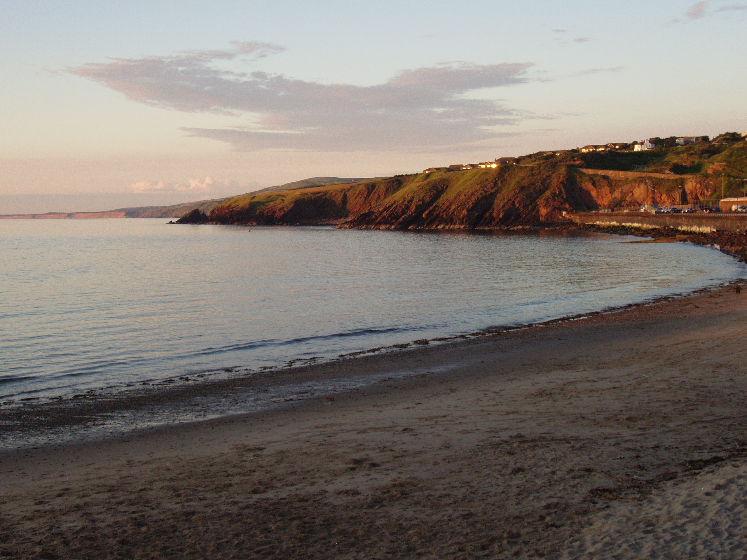 Rays of the setting summer sun, subdued by the shadow of Peel Castle, bathes the beach in Peel, Isle of Man.